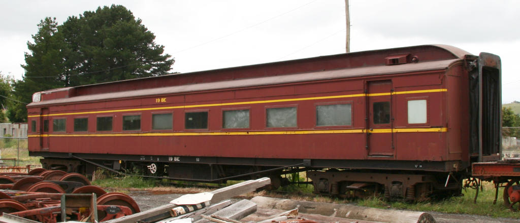 Air conditioned Victorian Railways E type carriage 19BE as preserved by the South Gippsland Railway